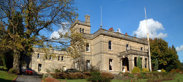 Parc Howard museum. Parc Howard museum from the drive.